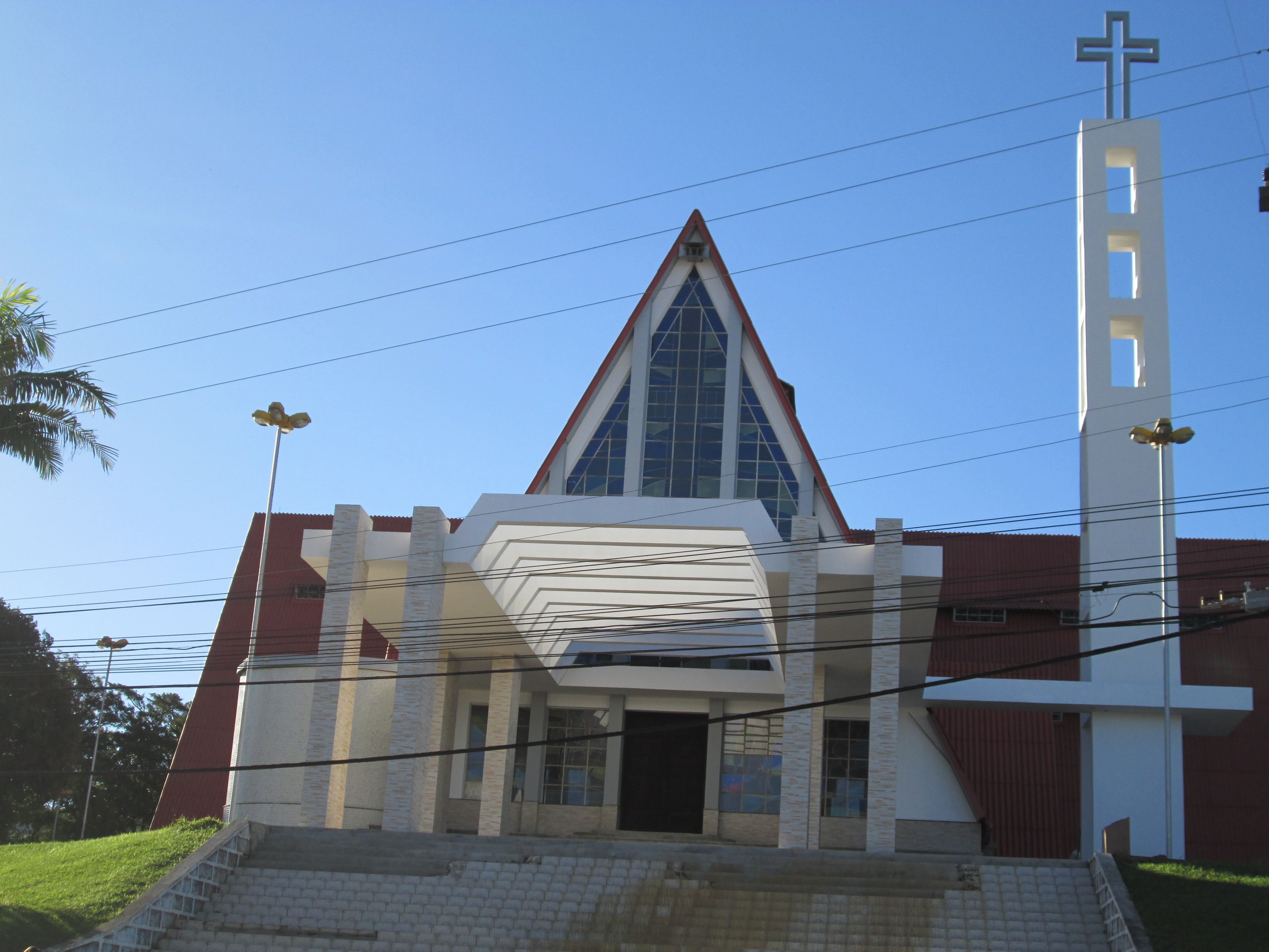 Paróquia Nossa Senhora da Salete Criciúma SC